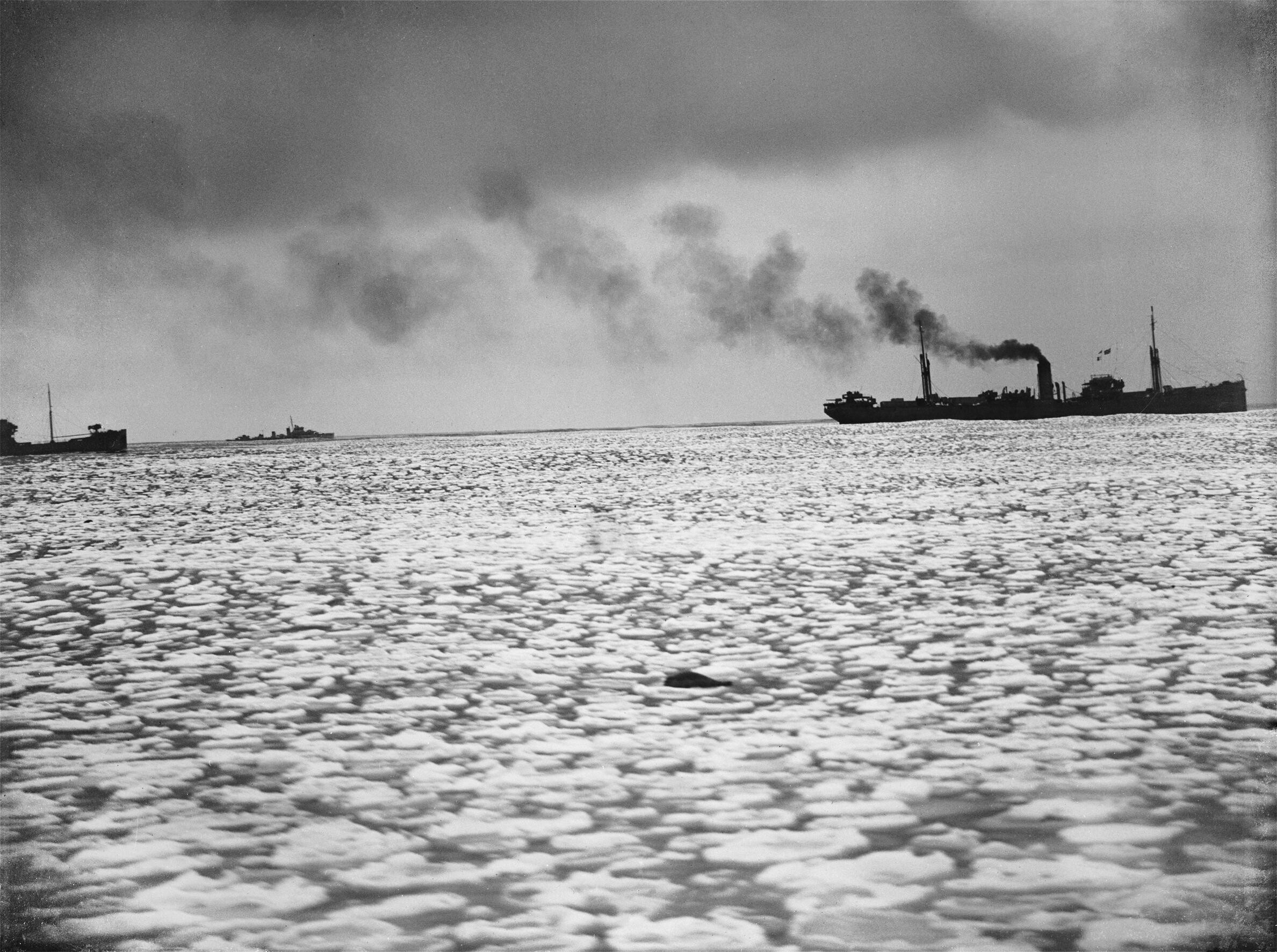 Convoys To Russia during the Second World War - Convoy Jw53, 15-27 February 1943 Merchant ships of convoy JW53 passing through pack ice during the voyage. An escort destroyer can be seen in the background. View from the Dido class cruiser HMS SCYLLA.